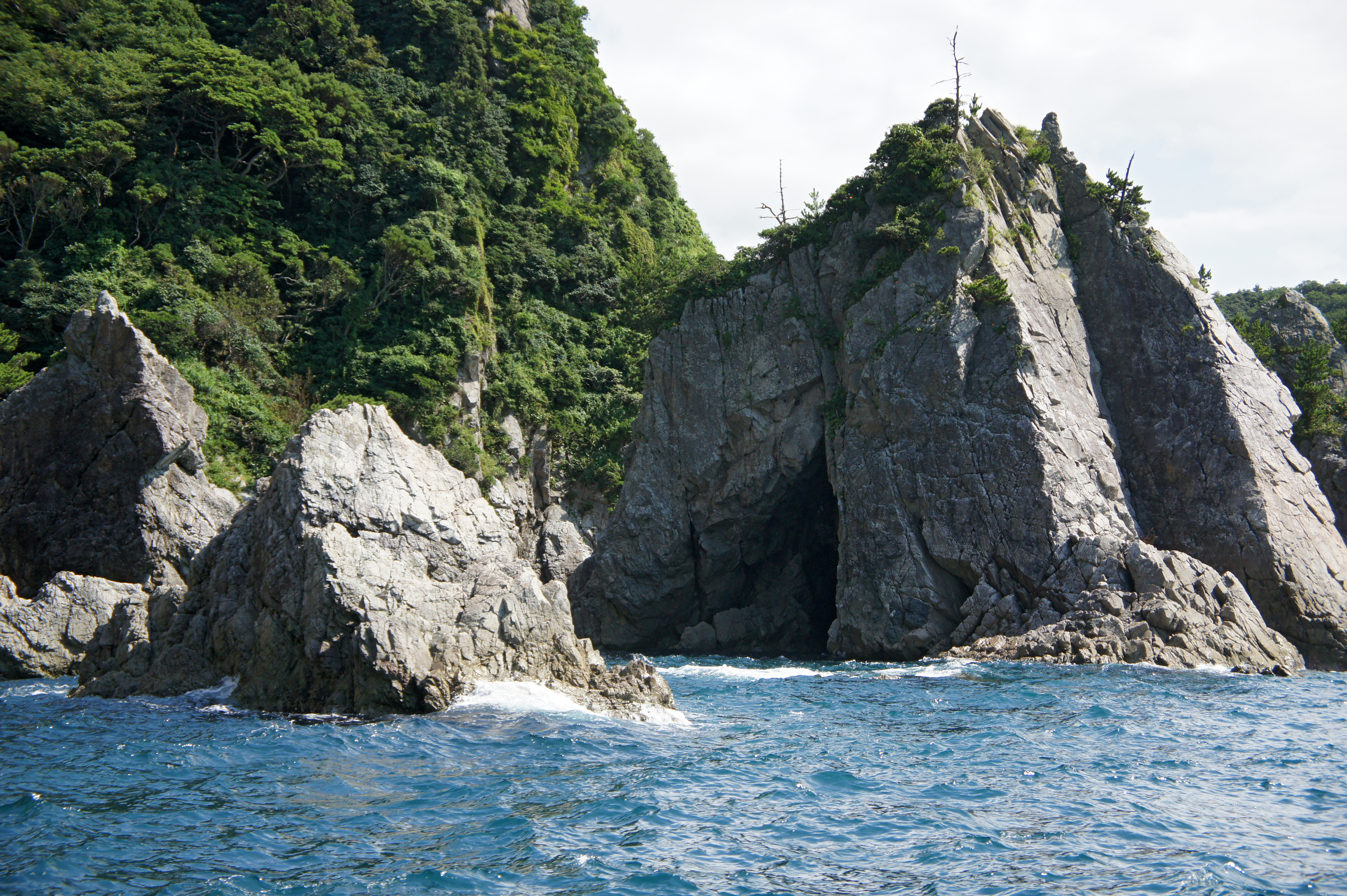 Tai-no-matsushima of Tajima mihonoura in Shinonsen, Hyogo prefecture, Japan